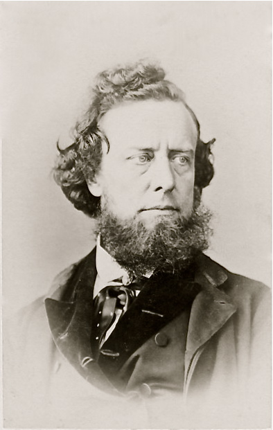 Carte-de-visite of William Hepworth Dixon, by Elliott & Fry. Cropped.